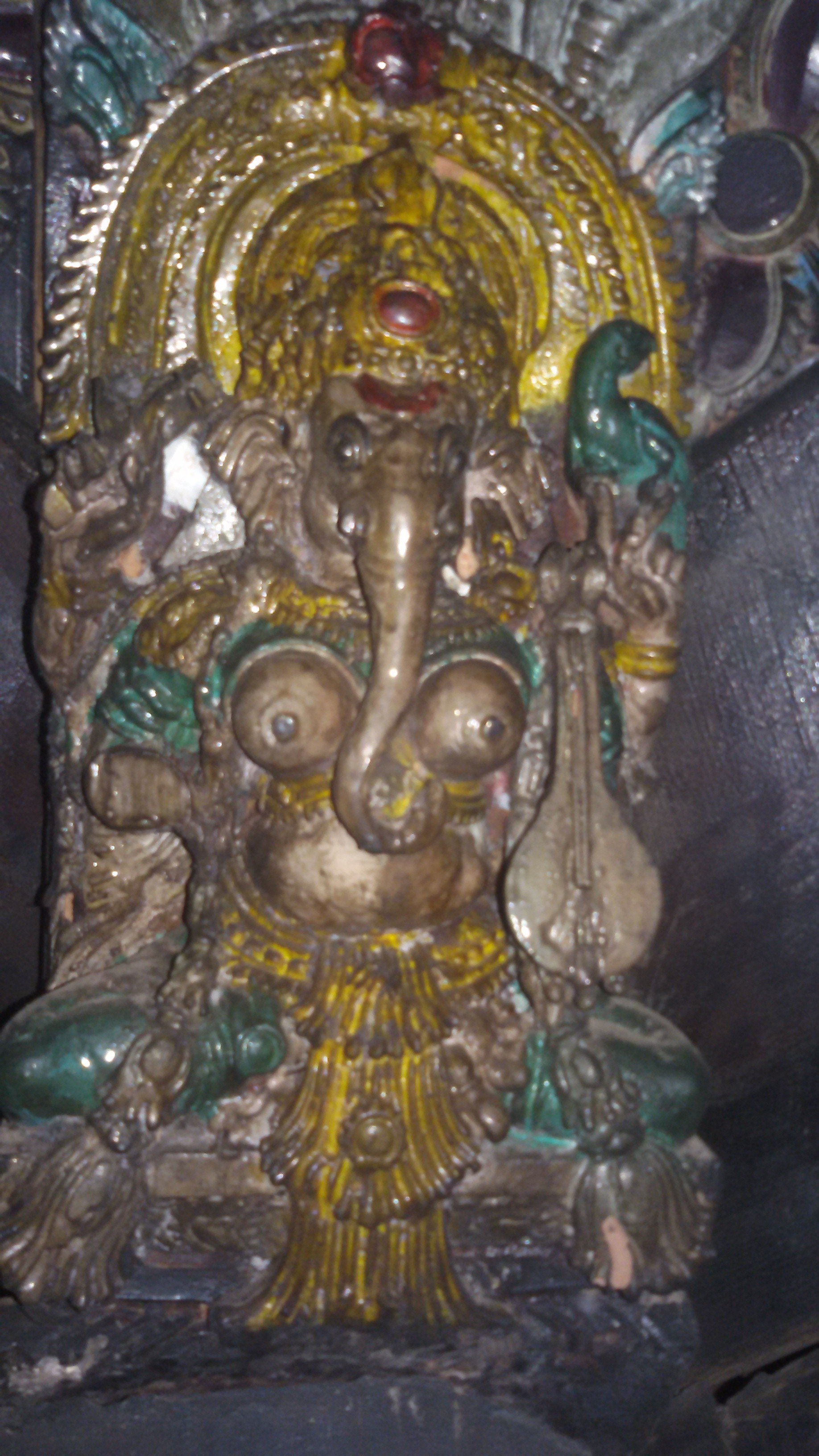 Wooden Statue of Vinayaki (Women Ganesha) which is situvated in Cheriyanad Sree balasubramania Swamy Temple.